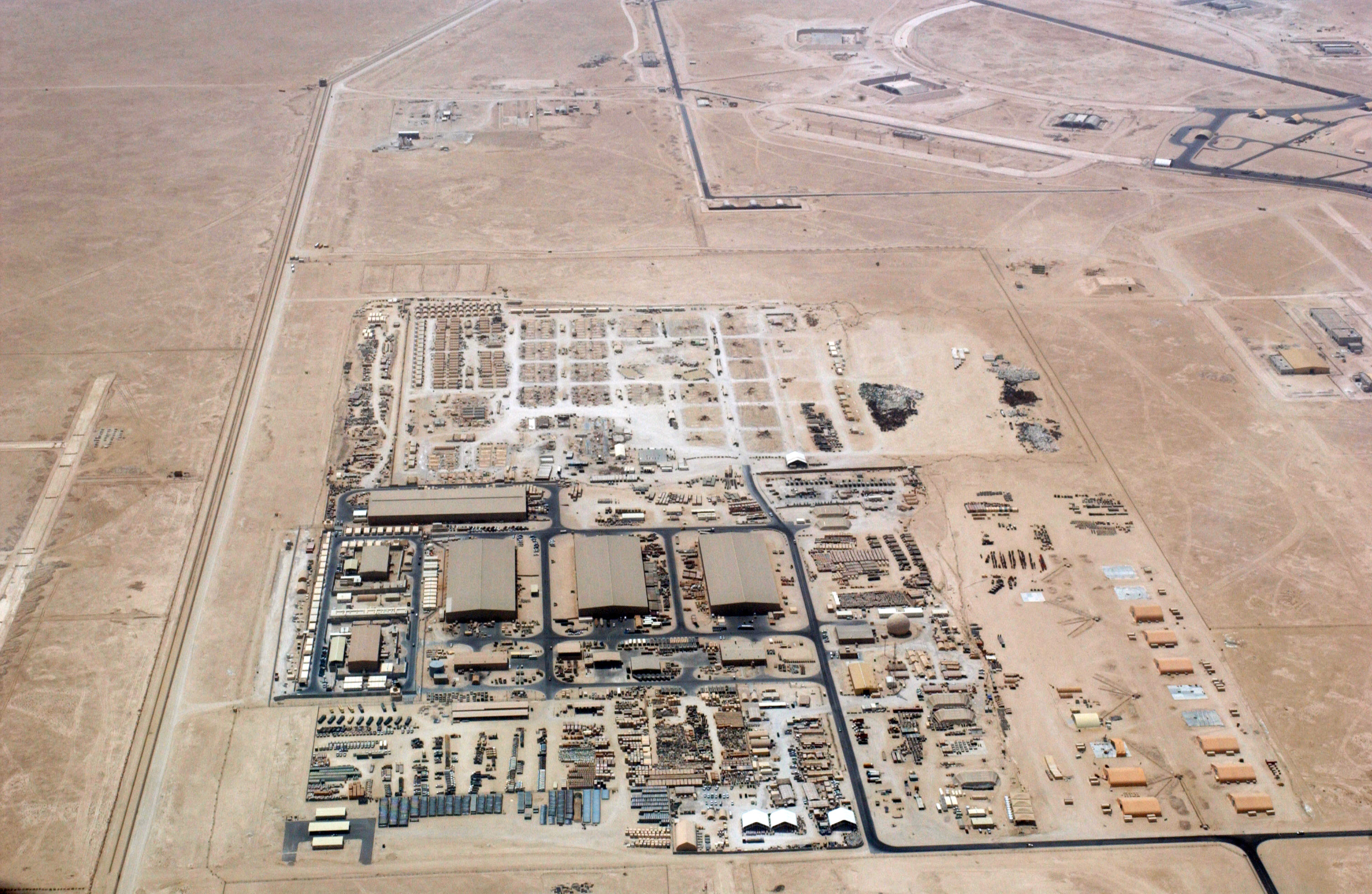 From the Depart of Defense image search website - Defense Visual Information Center. Picture comes up if you search for Al Udeid ID: DF-SD-07-08098 Service Depicted: Air Force 040818-F-4884R-024 An aerial overhead view of"Ops Town"at at Al Udeid Air Base (AB), Al Rayyan Province, Qatar (QAT), taken from a US Air Force (USAF) KC-135 Stratotanker during Operation IRAQI FREEDOM. Camera Operator: TSGT SCOTT REED, USAF